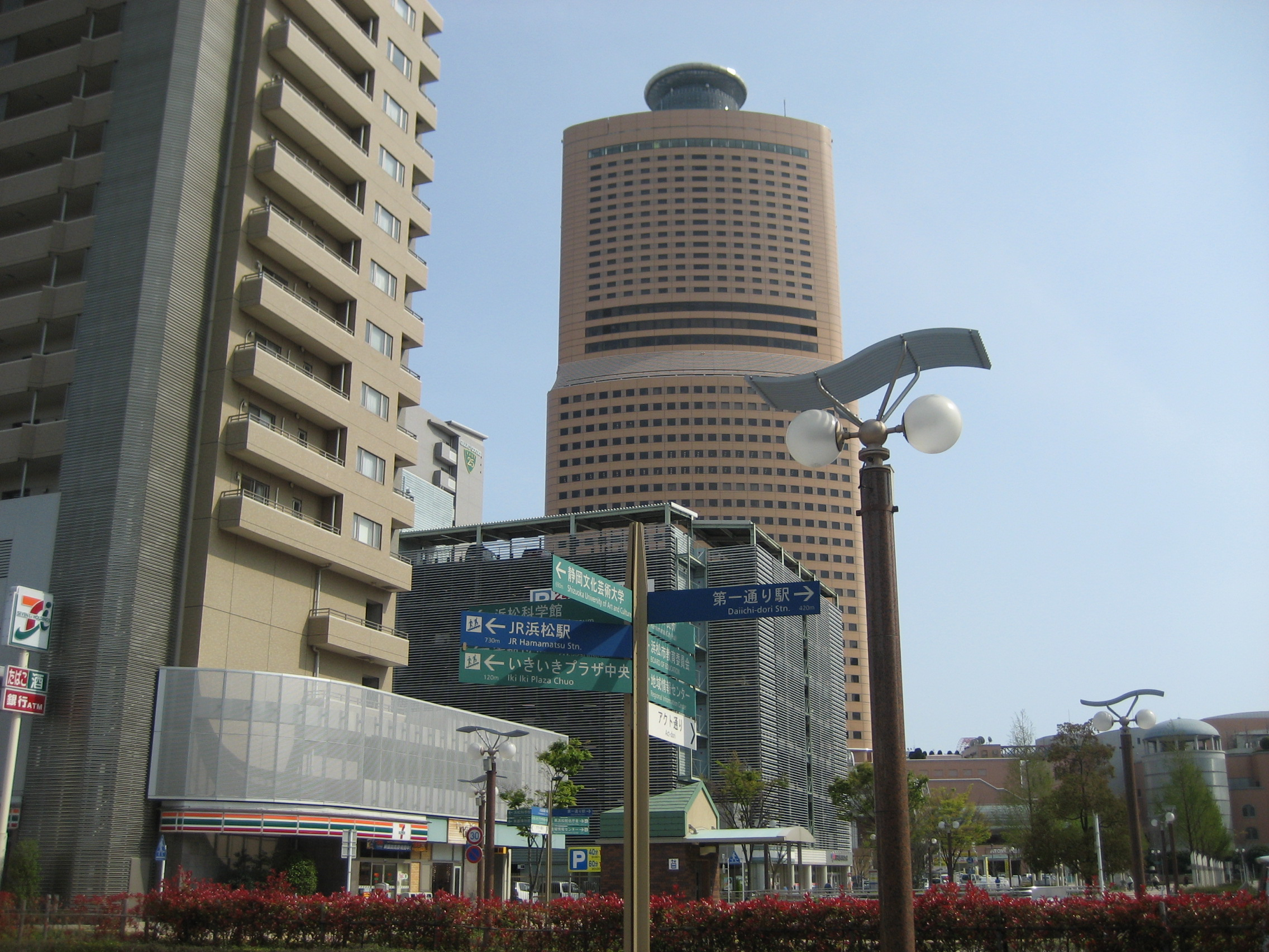 ACT TOWER